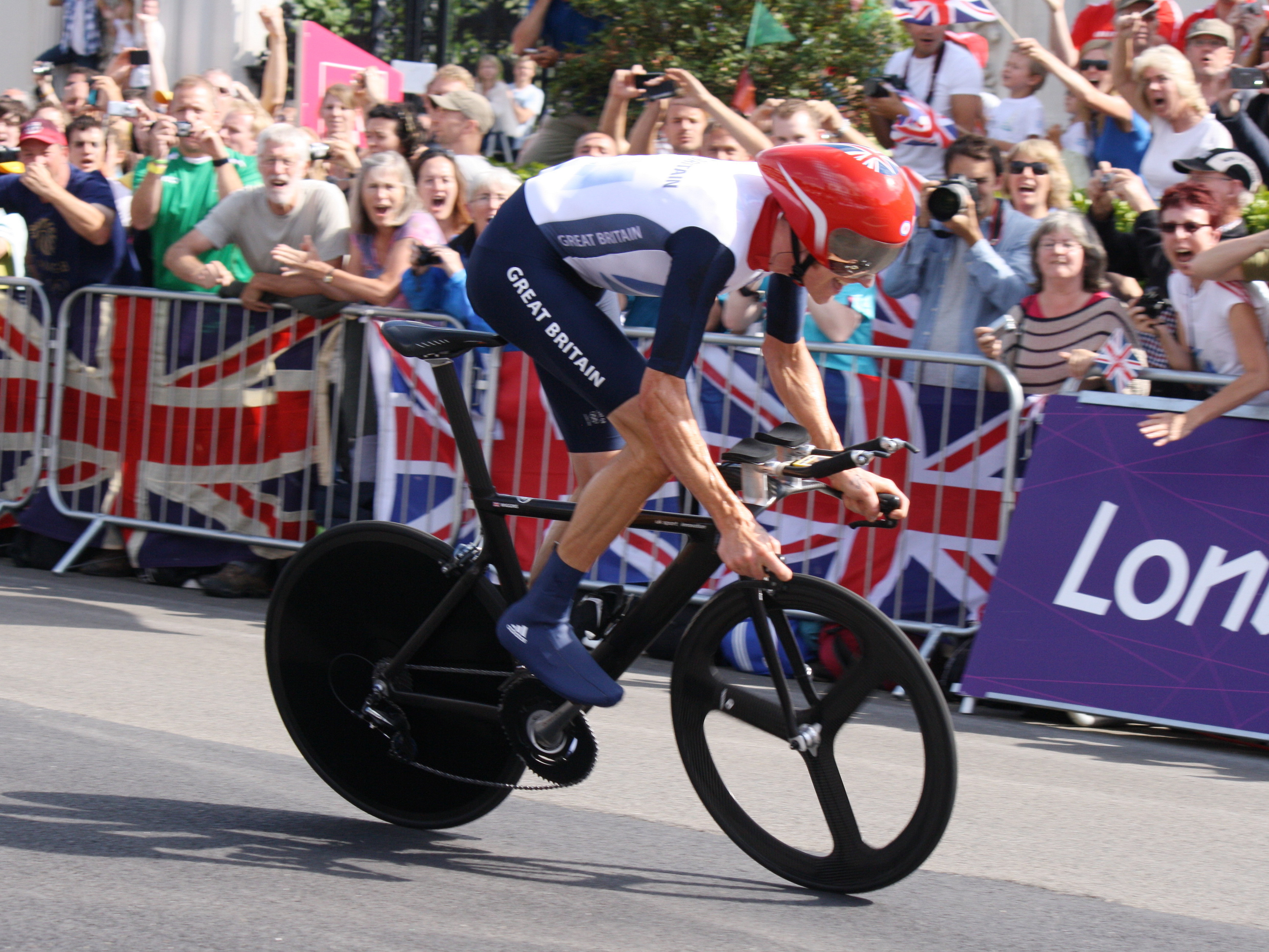 Bradley Wiggins